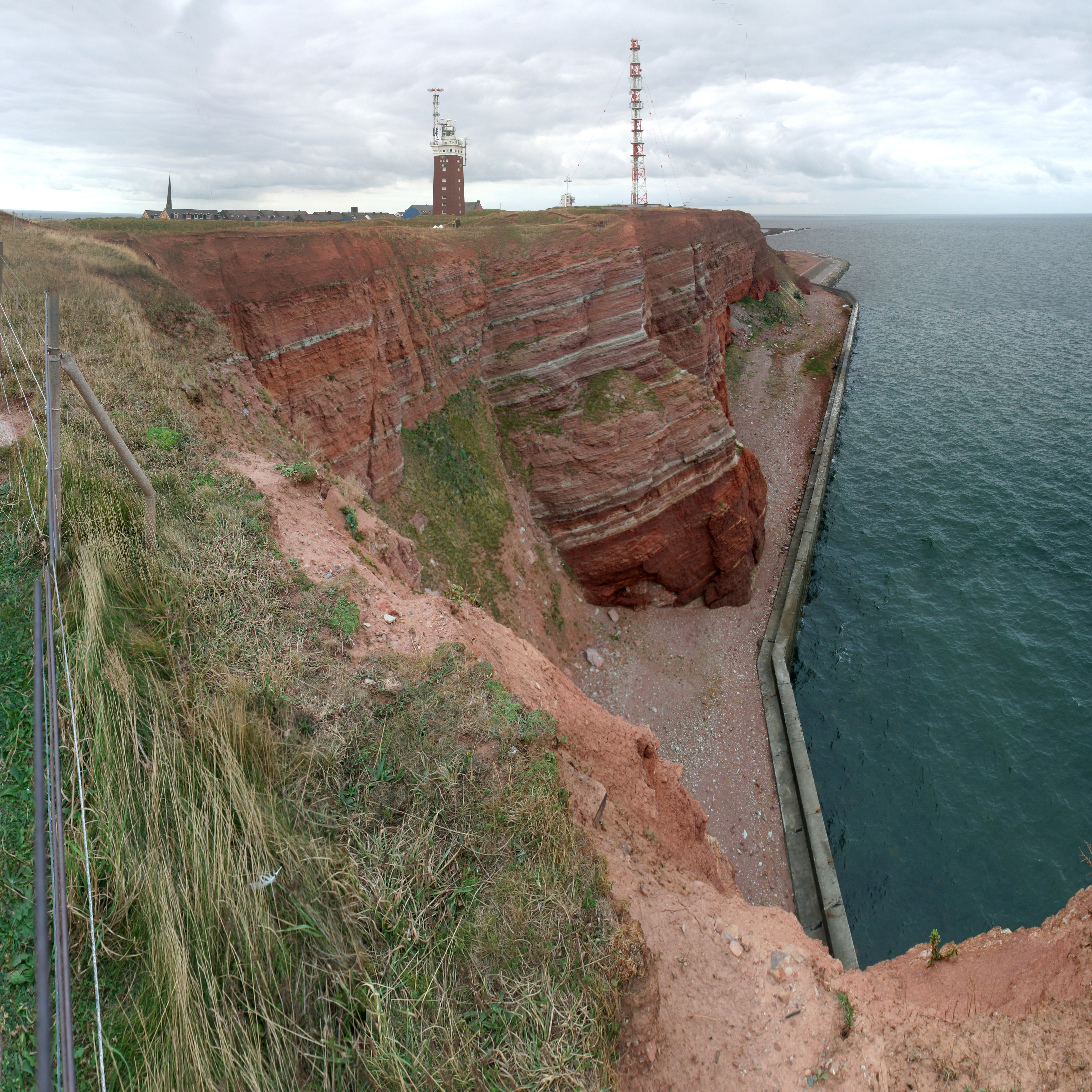 Heligoland, rocky coast